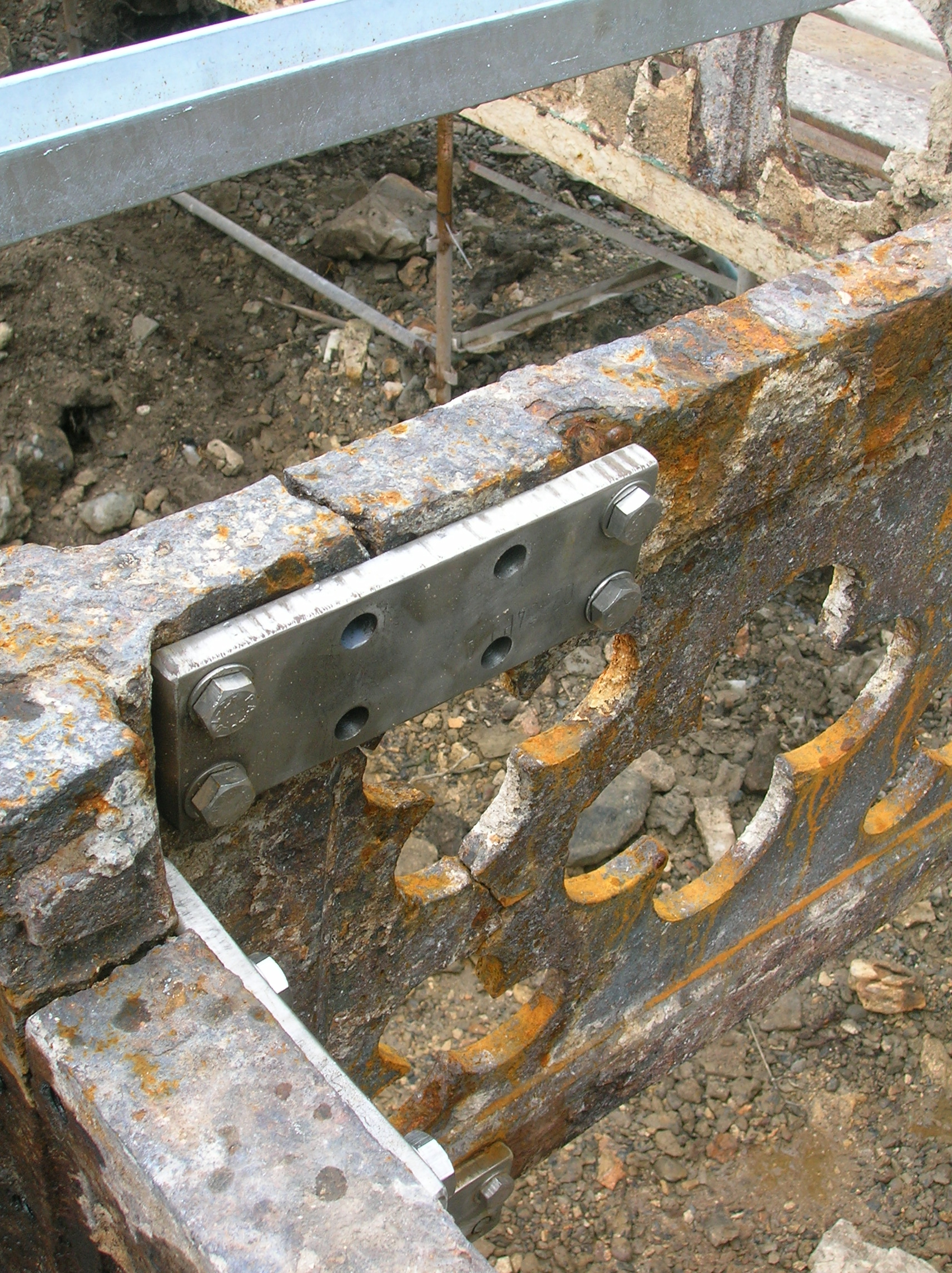 Eglinton Tournament Bridge